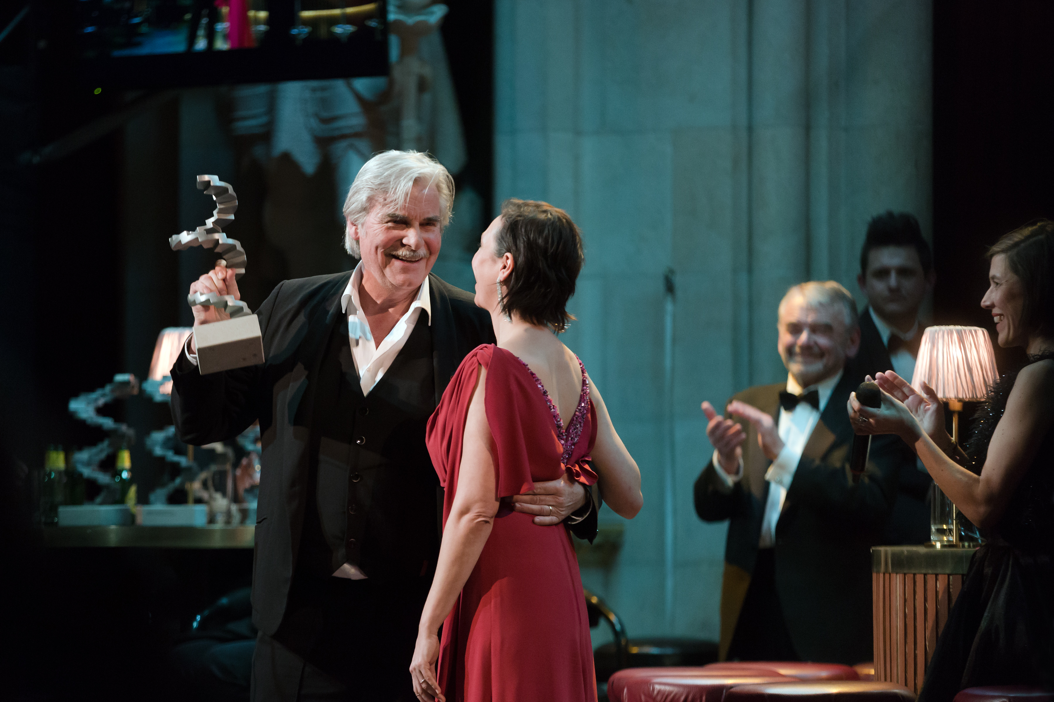 Austrian Film Awards 2017: Ursula Strauss with Peter Simonischek, winner for best male actor (Toni Erdmann); Rathaus, Vienna, Austria.